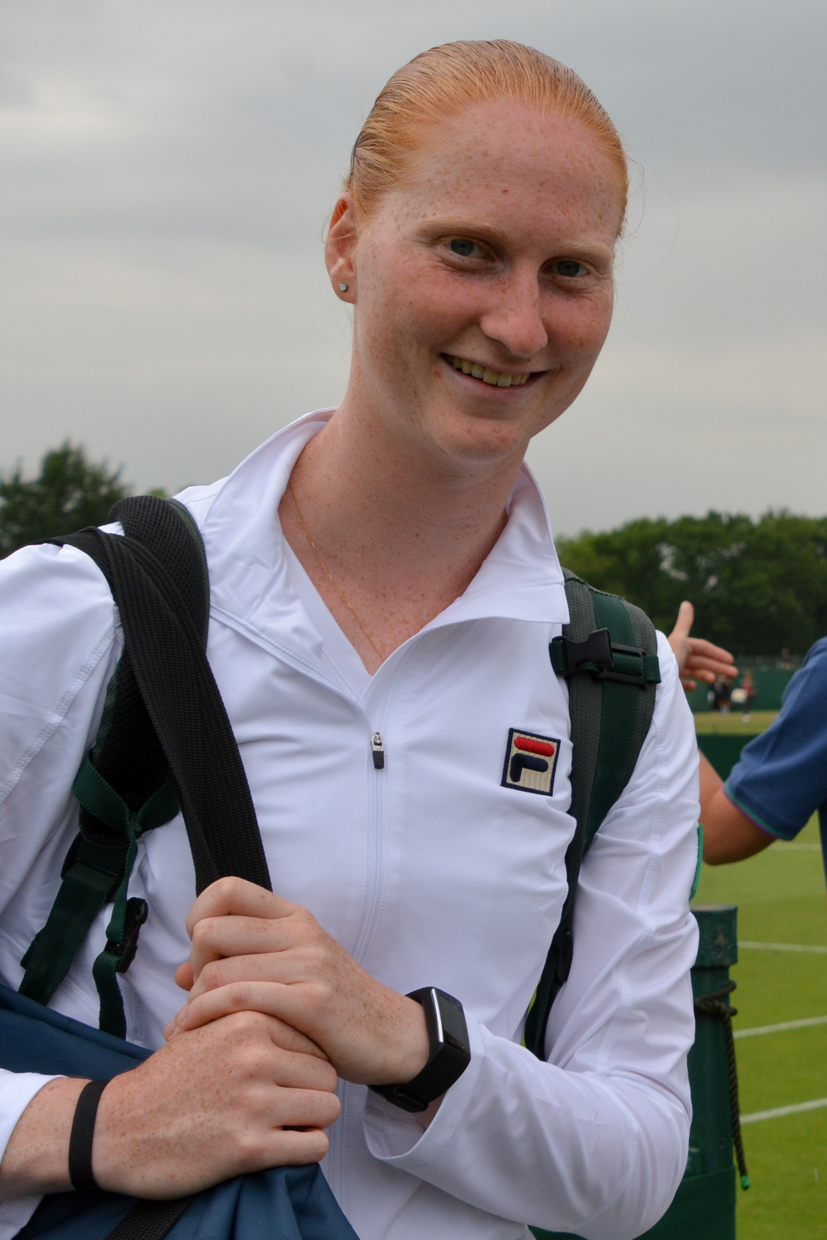 Alison Van Uytvanck & Gabriella Taylor, waiting for the weather to let them play. Wimbledon qualifying, Roehampton 2017.